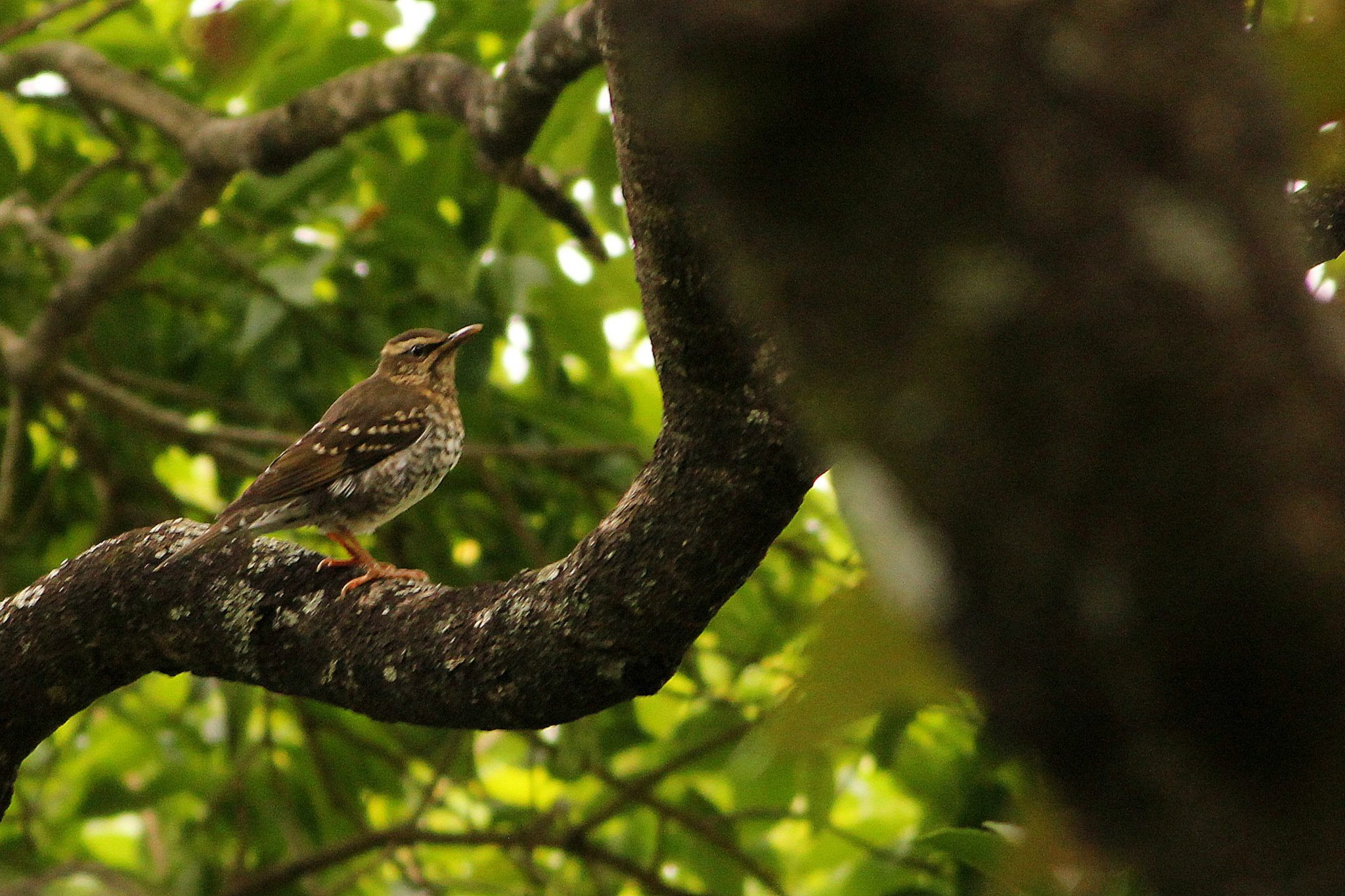 Pied Thrush